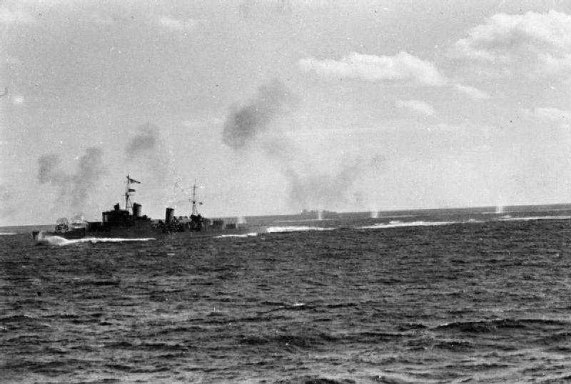 IWM caption : HMS SOUTHAMPTON firing during the fleet action off Sardinia. The flash of the guns can be seen, as can the splashes of the enemy shells seen falling short and astern. Photograph taken from HMS SHEFFIELD. One Italian cruiser and two Italian destroyers were damaged in this action. Comment : this was the Battle of Cape Spartivento.